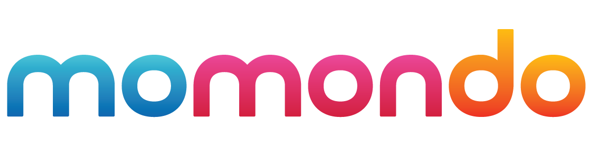 momondo